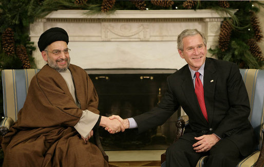 U.S. President George W. Bush welcomes Sayyed Abdul-Aziz Al-Hakim, Leader of the Supreme Council for the Islamic Revolution in Iraq, to the White House Monday, Dec. 4, 2006. Said the President, " I appreciate so very much His Eminence's commitment to a unity government. I assured him the United States supports his work and the work of the Prime Minister to unify the country."